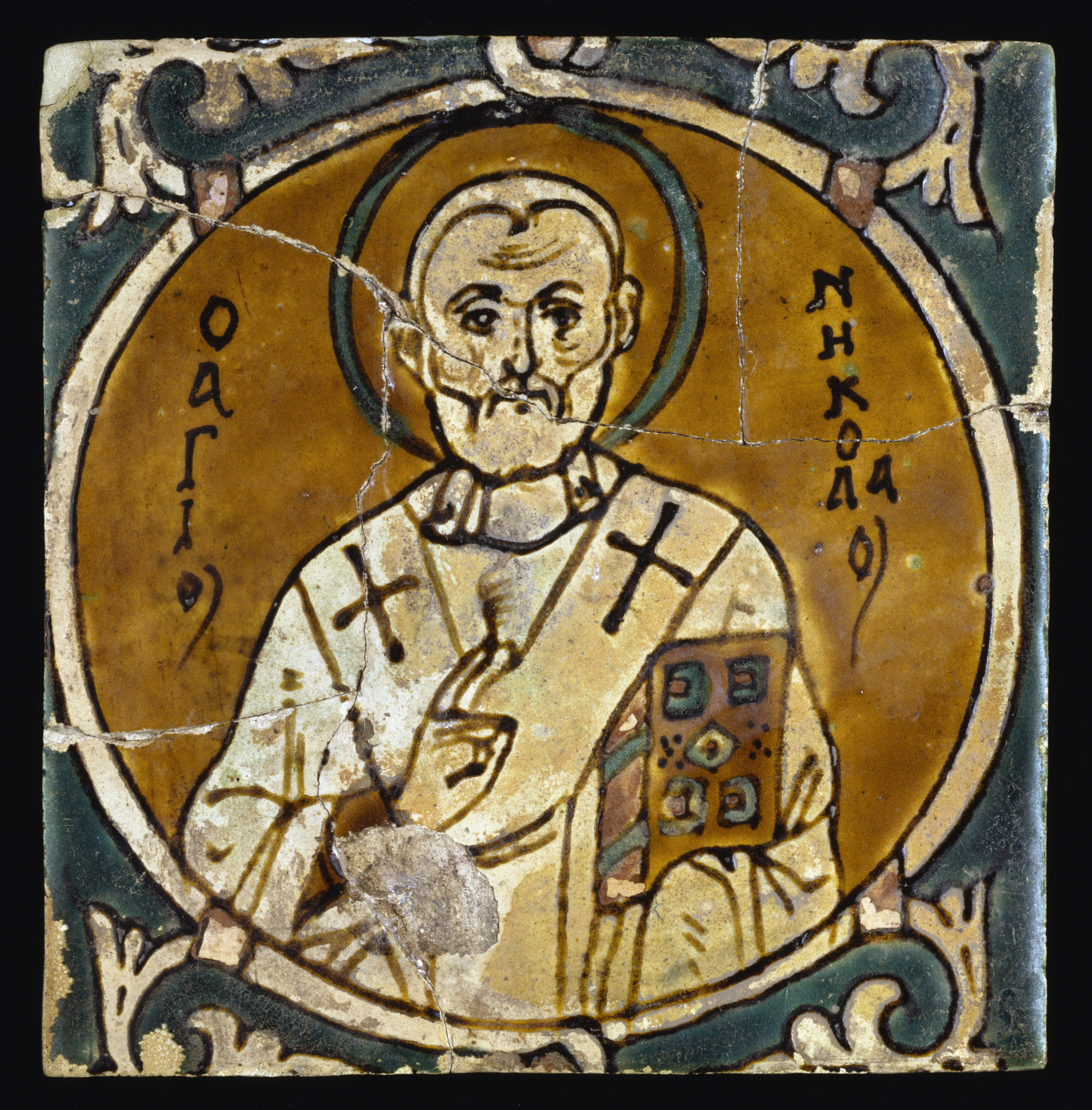 This ceramic icon shows Saint Nicholas, framed by vine scrolls, raising his right hand in blessing and holding the Gospels in his left hand, which is covered as a sign of respect. This ceramic tile is one of the finest in the Walters collection, which includes over 1,000 fragments, the largest such group outside of Turkey. Although of unknown origin, this group of tiles is similar to ones known to have been made in Constantinople (now Istanbul). The tiles were most likely attached to a church wall as part of a frieze containing saint portraits and ornamented (non-iconic) pieces. Two further tiles in the museum belong to the same series as this one and carry images of Saint James (Walters 48.2086.9) and Saint Parascheve (?) (Walters 48.2086.14).